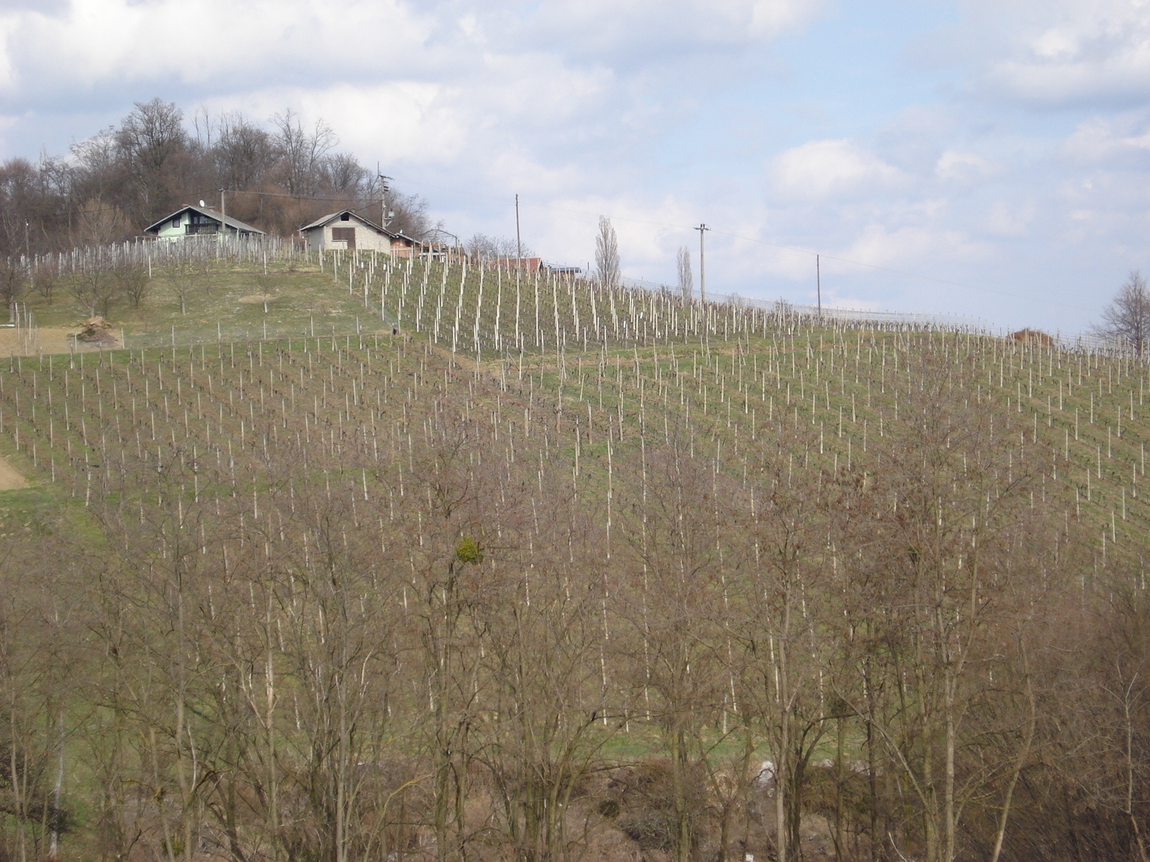 "Međimurske gorice" - Vineyard hill at Jurovčak village in Međimurje wine subregion, northern Croatia, in early spring 2012Hrvatski: "Međimurske gorice" - Vinogradski brežuljak kod sela Jurovčaka u Međimurskom vinogorju (podregiji), sjeverna Hrvatska, u rano proljeće 2012. godine